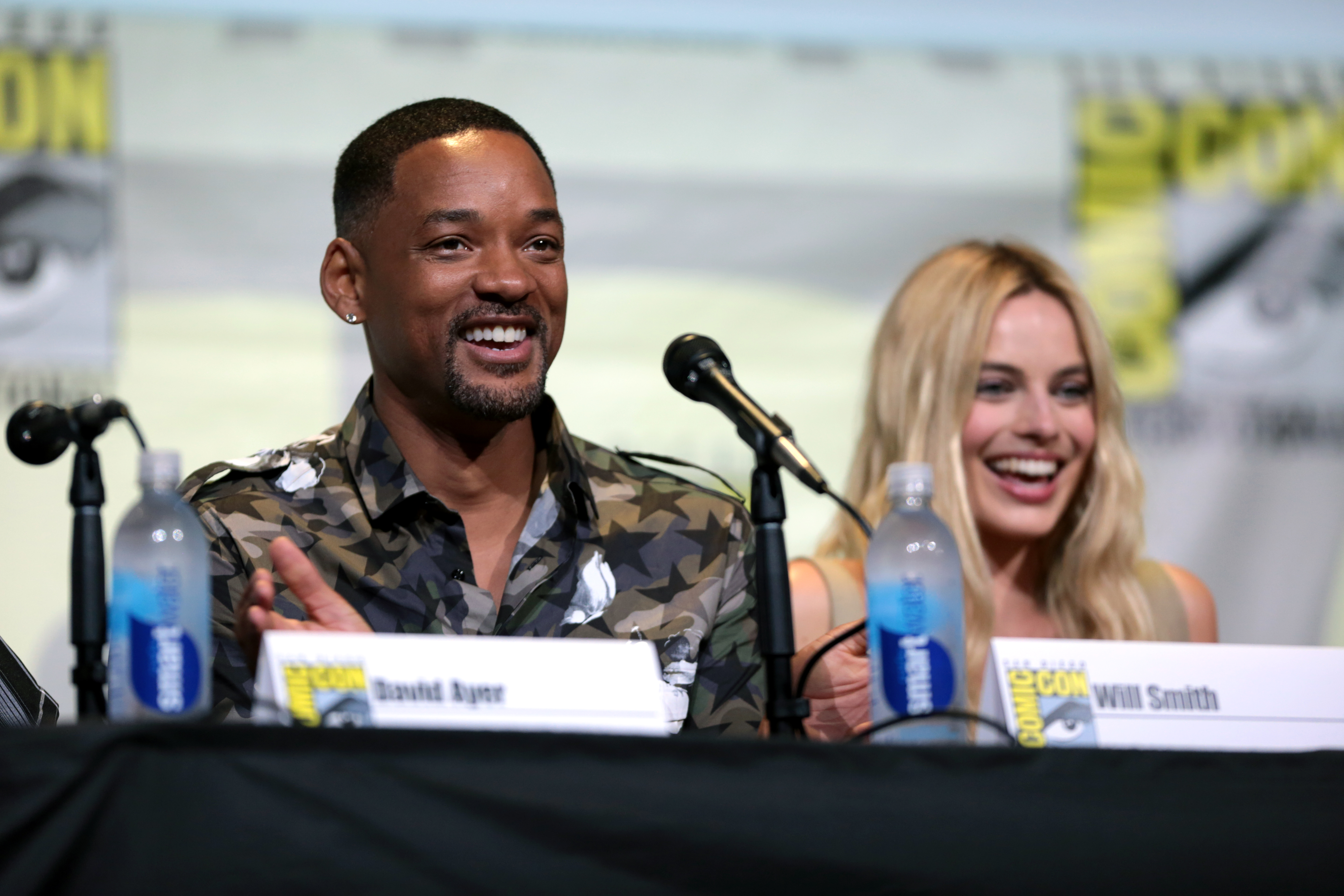 Will Smith and Margot Robbie speaking at the 2016 San Diego Comic Con International, for "Suicide Squad", at the San Diego Convention Center in San Diego, California.